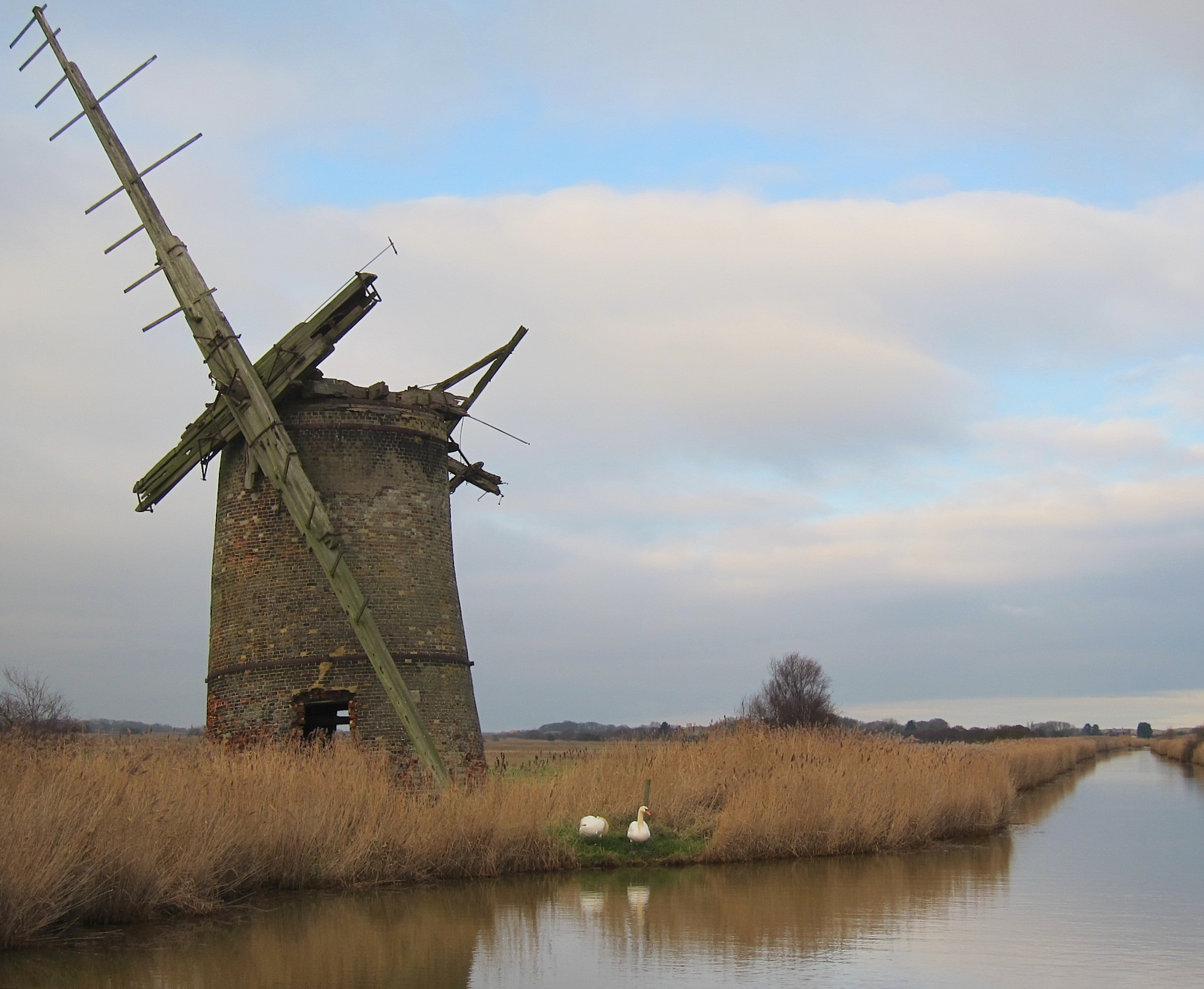 Brograve mill-pump, from se, along accessible path